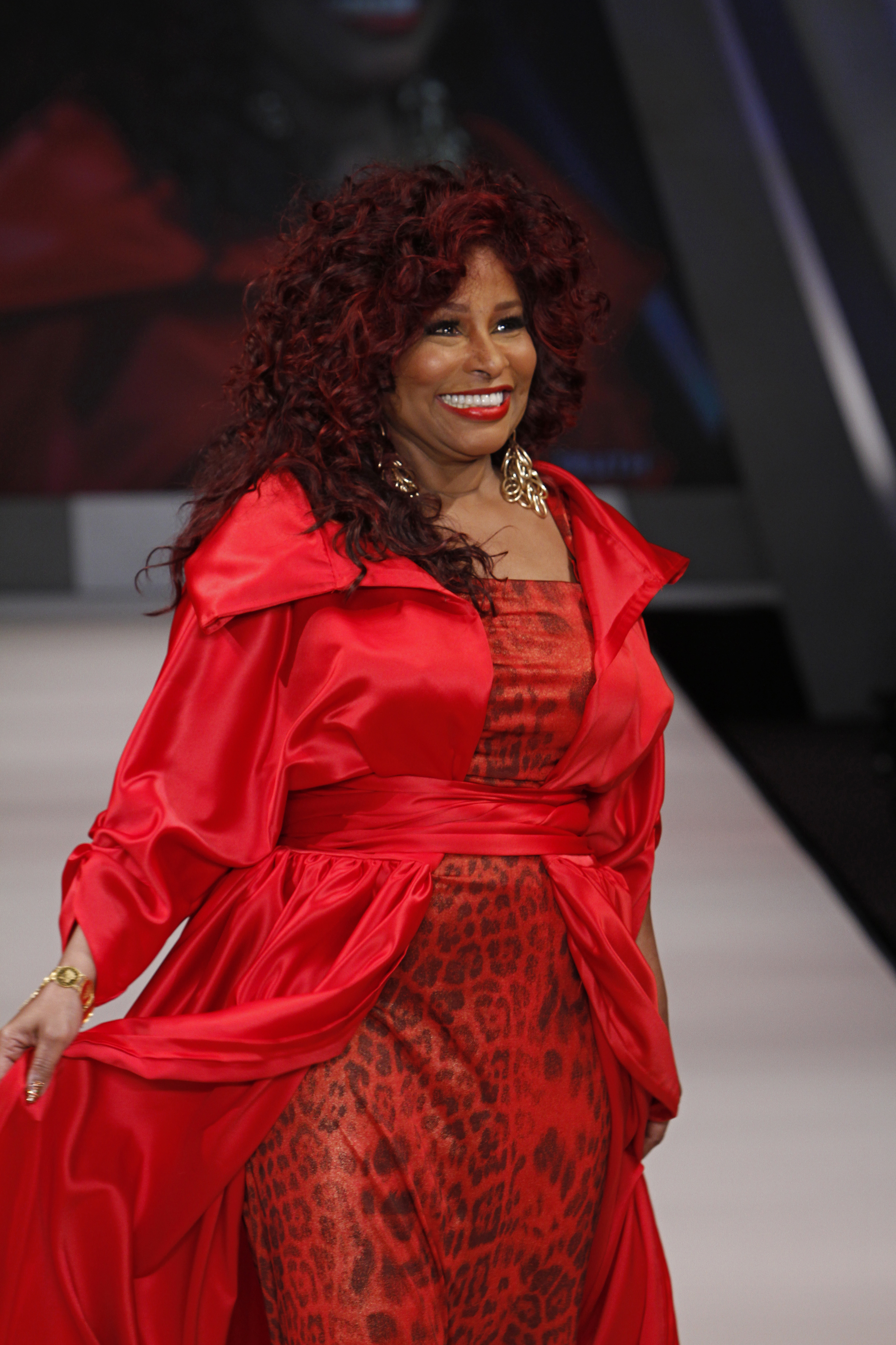 Photo by Dan&Corina Lecca